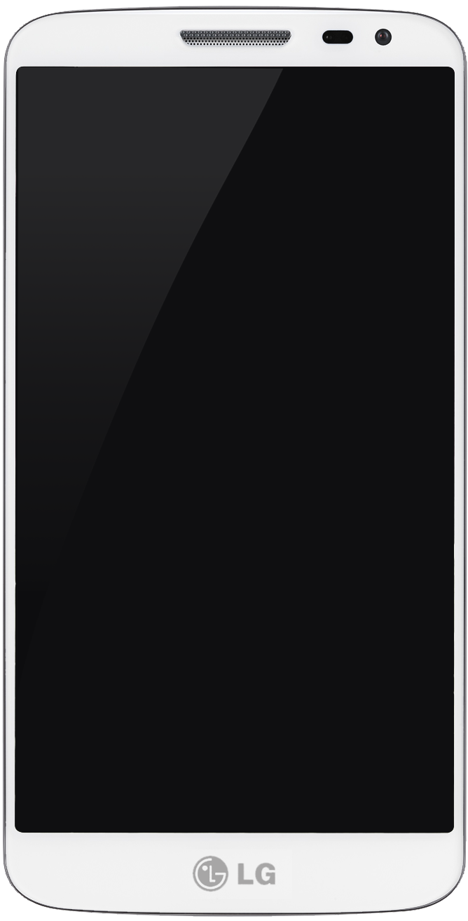 LG G2 Mini render